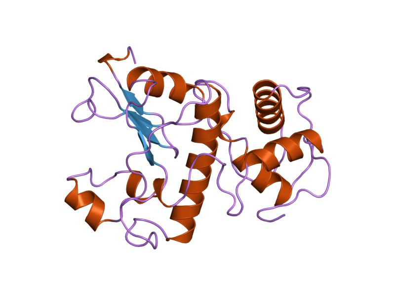 Cartoon representation of the molecular structure of protein registered with 1lbu code.